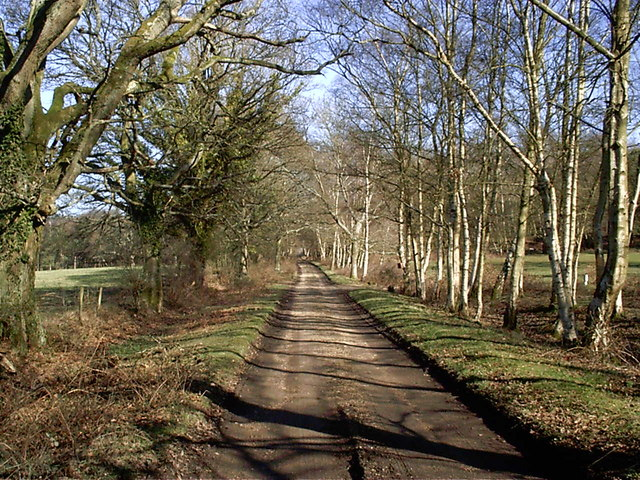 Lane up to Bunkers Hill on Copythorne Common on sunny winter's day